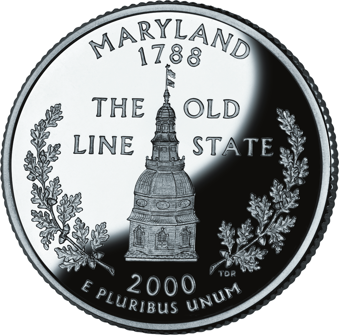 Removed background, cropped, and converted to PNG with Macromedia Fireworks. This image depicts a unit of currency issued by the United States of America. If Fraudulent use of this image is punishable under applicable counterfeiting laws. As listed by the United States Secret Service at money illustrations, the Counterfeit Detection Act of 1992, Public Law 102-550, in Section 411 of Title 31 of the Code of Federal Regulations (31 CFR 411), permits color illustrations of U.S. currency provided:1. The illustration is of a size less than three-fourths or more than one and one-half, in linear dimension, of each part of the item illustrated;2. The illustration is one-sided; and3. All negatives, plates, positives, digitized storage medium, graphic files, magnetic medium, optical storage devices, and any other thing used in the making of the illustration that contain an image of the illustration or any part thereof are destroyed and/or deleted or erased after their final use. Certain coins contain copyrights licensed to the U.S. Mint and owned by third parties or assigned to and owned by the U.S. Mint [1]. For the United States Mint circulating coin design use policy, see [2]; for the policy on the 50 State Quarters, see [3]. Also: COM:ART #Photograph of an old coin found on the Internet